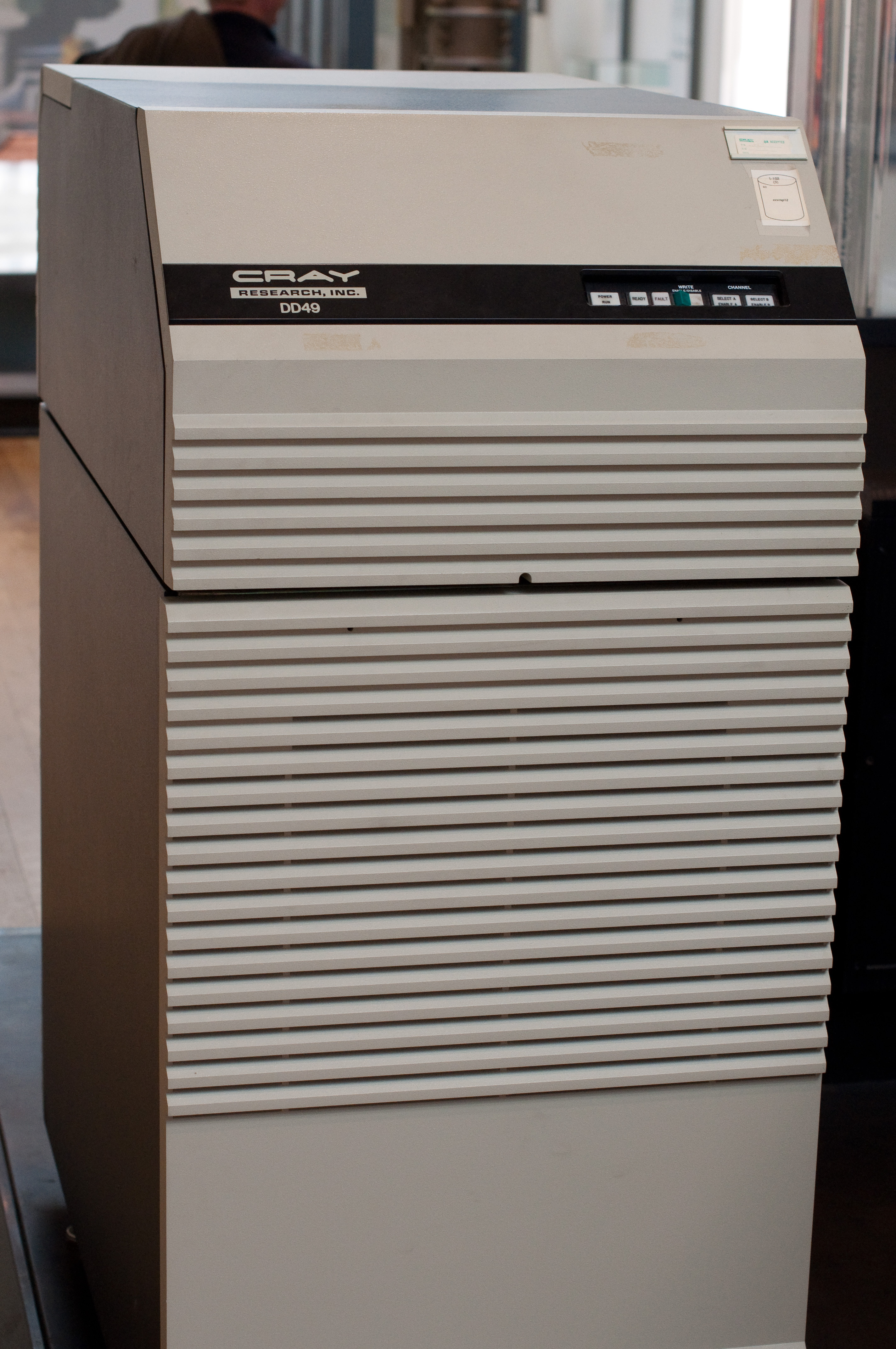 Cray disk drive DD49 storing 1.2 GB at a 9.8 MB/s transfer rates